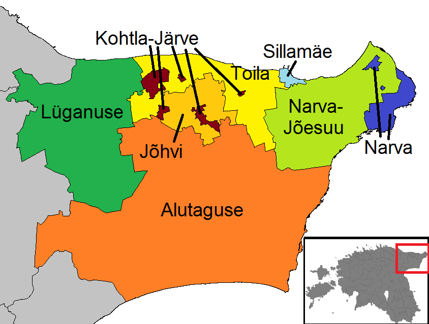 Map of the municipalities of Ida-Viru County after the Administrative Reform of Estonia in 2017.